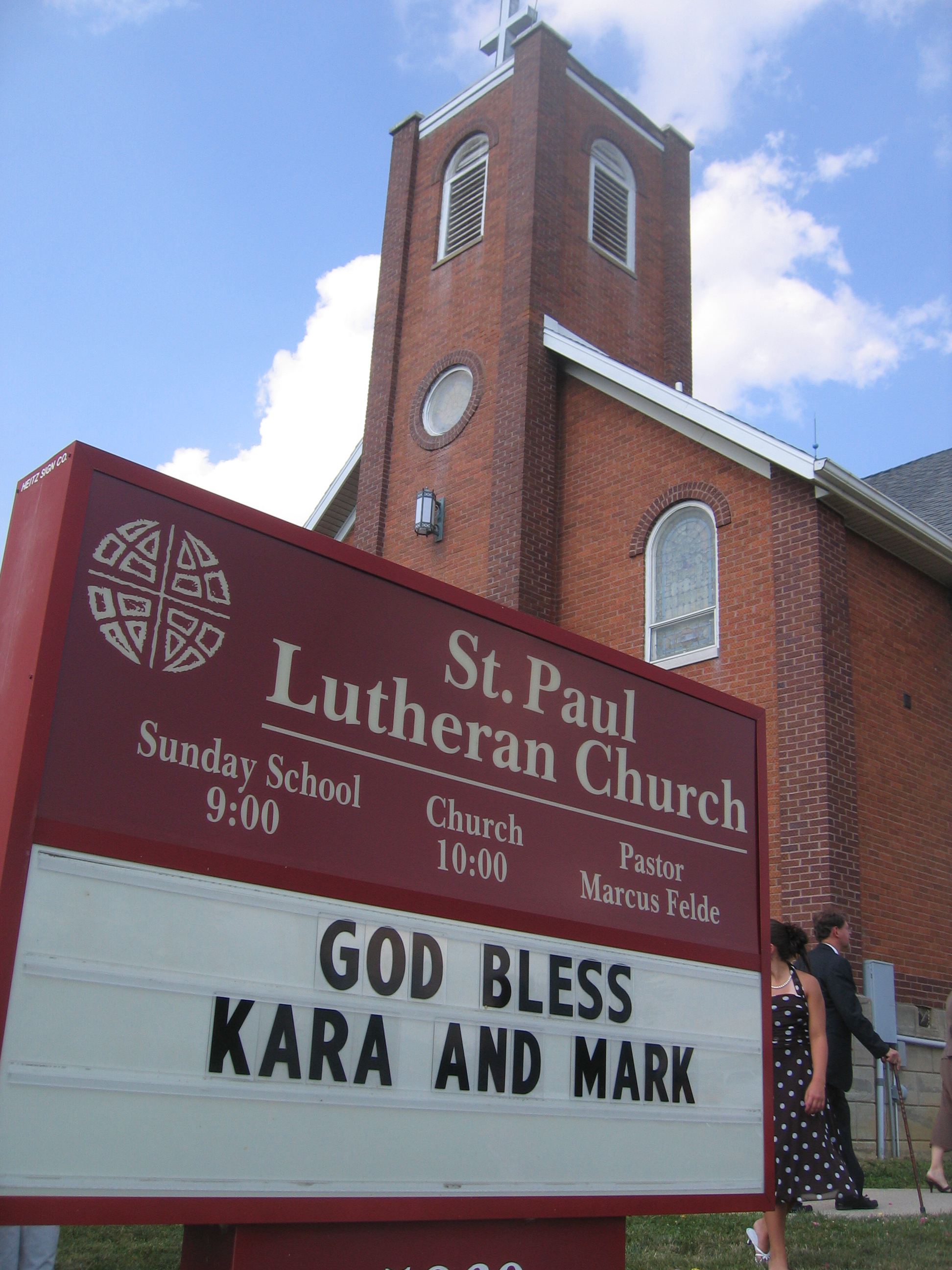 Sign in front of St. Paul Lutheran Church in Olean, Indiana